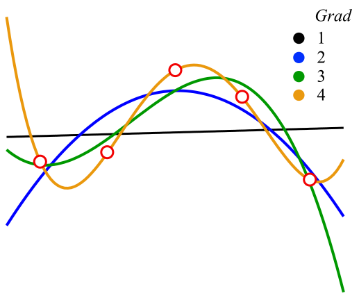 examples of least square fittings